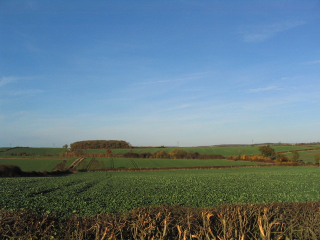 Farmland in Lincolnshire. View towards Lownd Wood